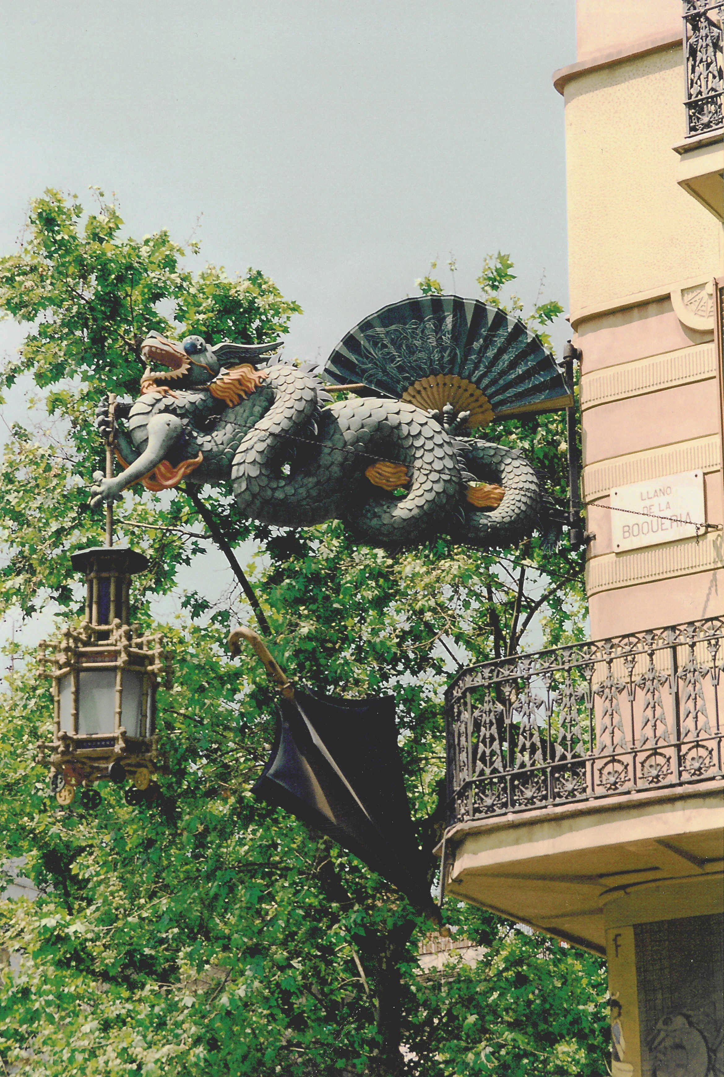 Sign, in the form of a modernista sculpture, in the Ramblas (Barcelona) near the Mercat de la Boqueria. This sculpture, which incorporates a dragon and an umbrella and also features a lamp, originally marked an umbrella shop.